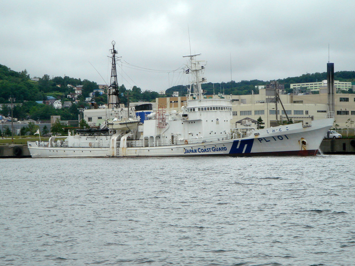 Japan Coast Guard Patrol Vessel at Otaru, Hokkaidō